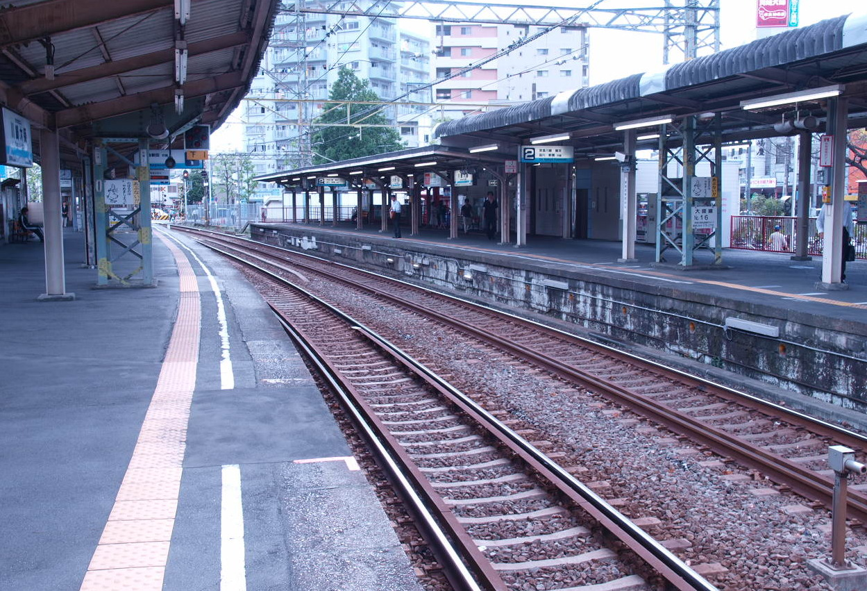 Kawasaki Daishi station platforms